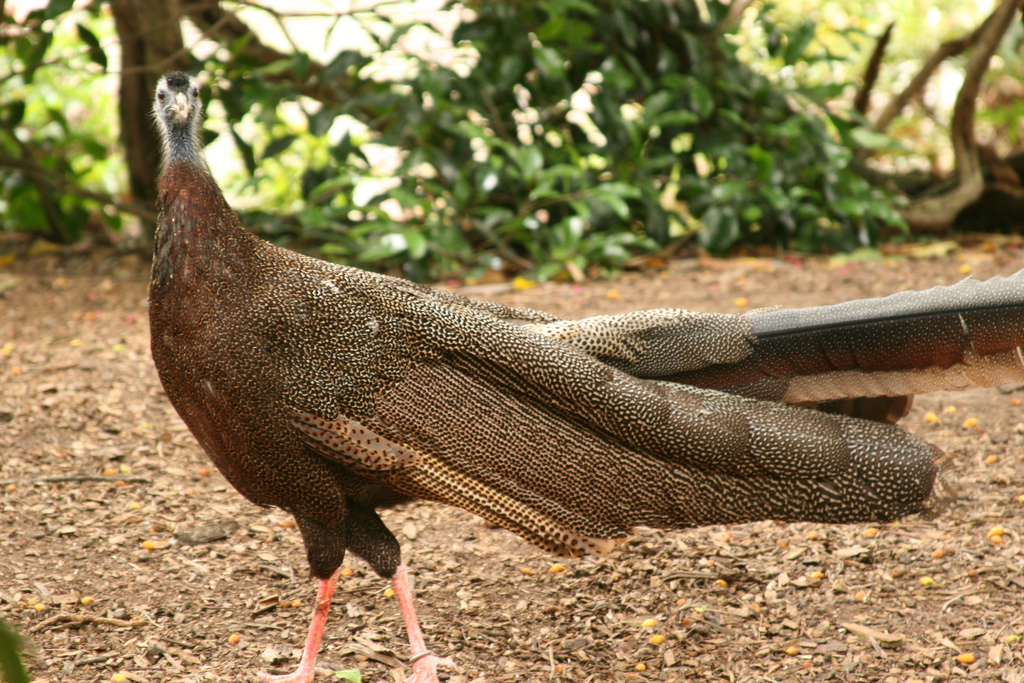 A male Great Argus (nominate subspecies) at San Diego Zoo, USA.